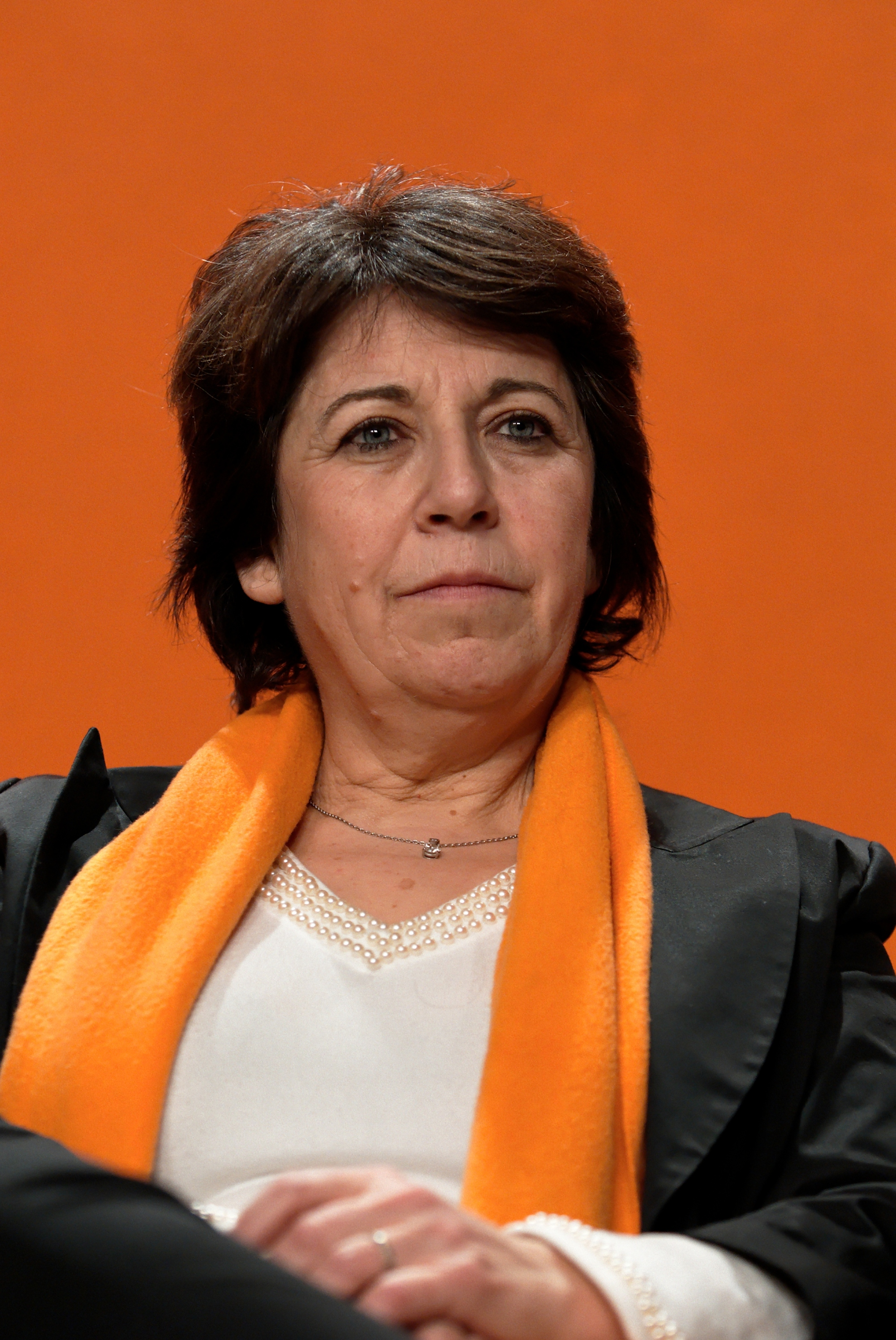 Corinne Lepage. Political rally on March 5, 2008 at the Mutualité (Paris) for Marielle de Sarnez's campaign in the 2008 Paris town elections.